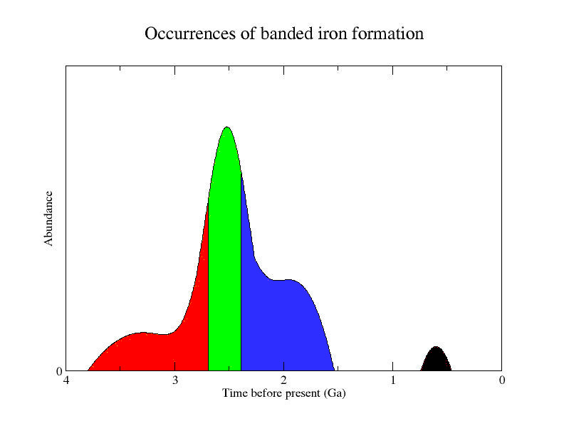 This graph shows the relative abundance of banded iron formations in the geologic record, as a function of time before the present. Color indicates dominant type. Light yellow = older Archean formations; dark yellow = Greater Gondwana formations; brown = granular iron formations; red = Snowball Earth formations. Adapted from Trendall, A.F. (2002). "The significance of iron-formation in the Precambrian stratigraphic record". In Altermann, Wladyslaw; Corcoran, Patricia L. (eds.). Precambrian Sedimentary Environments: A Modern Approach to Ancient Depositional Systems. Blackwell Science Ltd., ISBN 0-632-06415-3